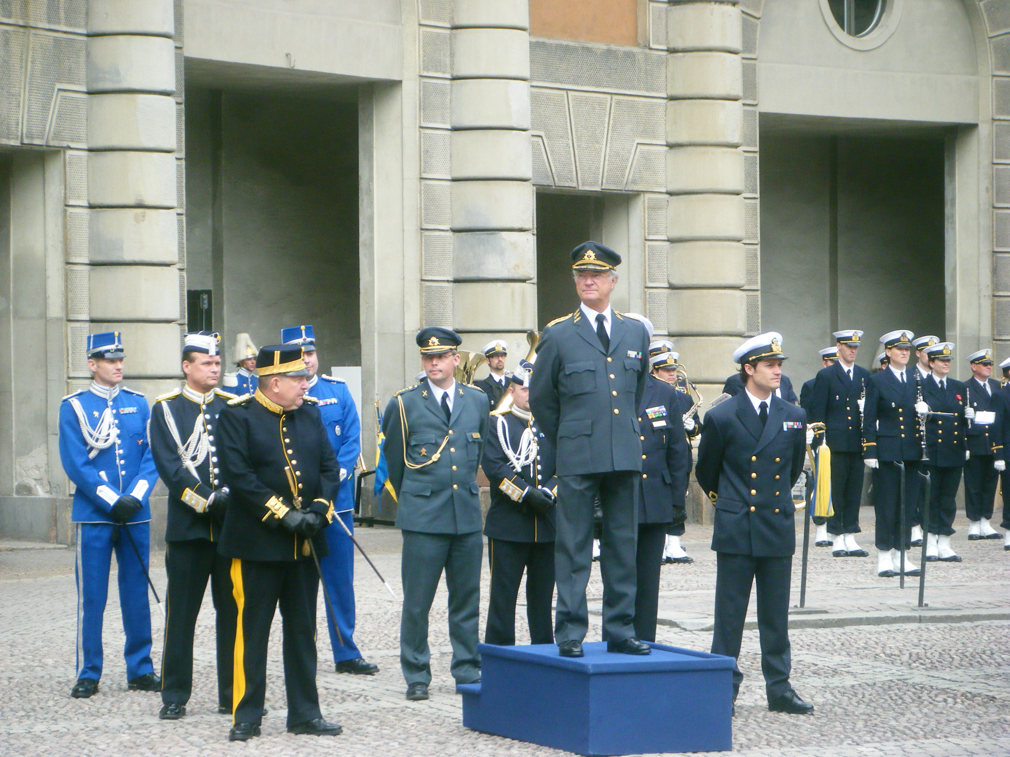 Swedish king and prince